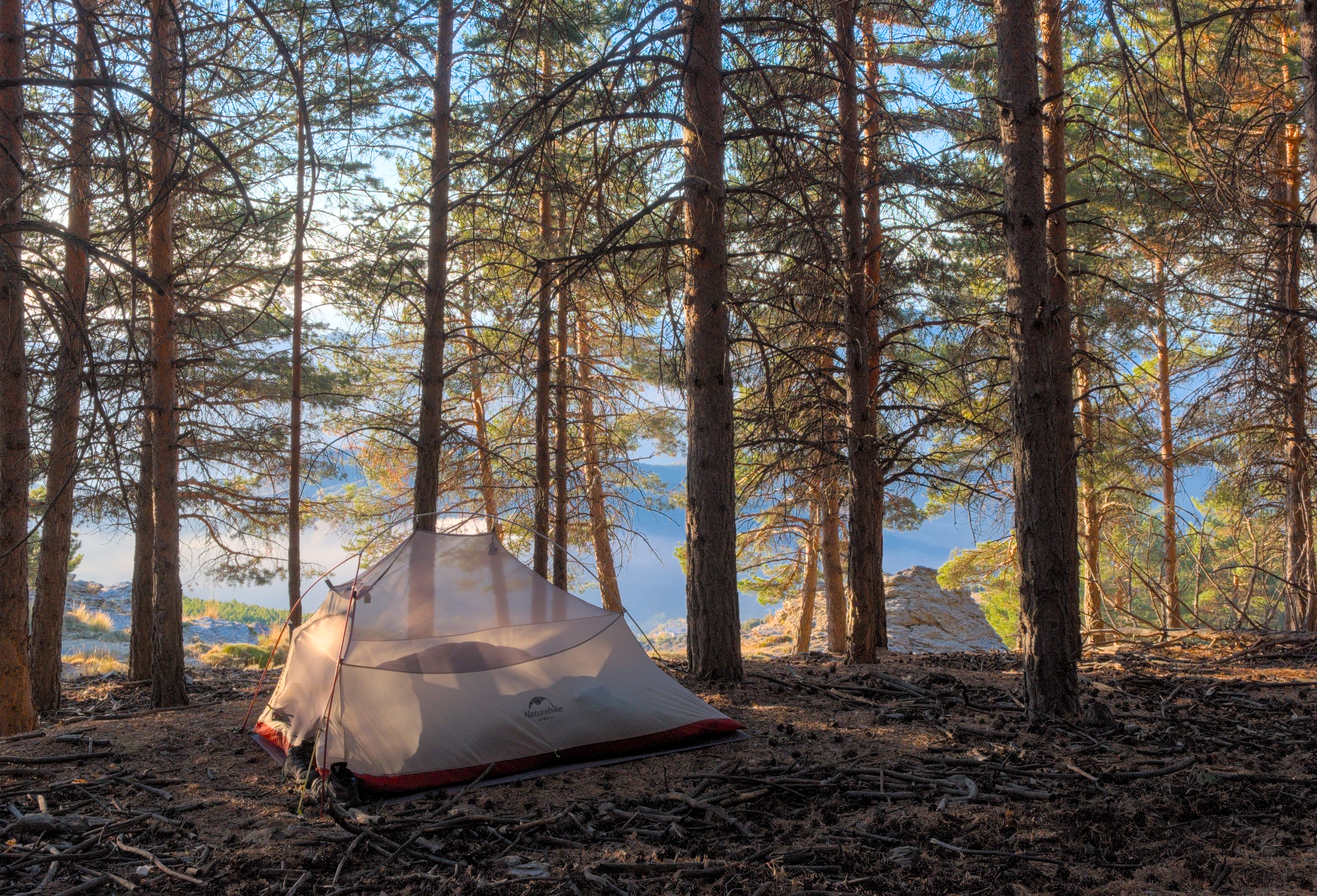 Tent camping along the Sulayr trail in La Taha, Sierra Nevada National Park This is a photography of a Special Area of Conservation in Spain with the ID: ES6140004. Natura2000 entry, EEA entry